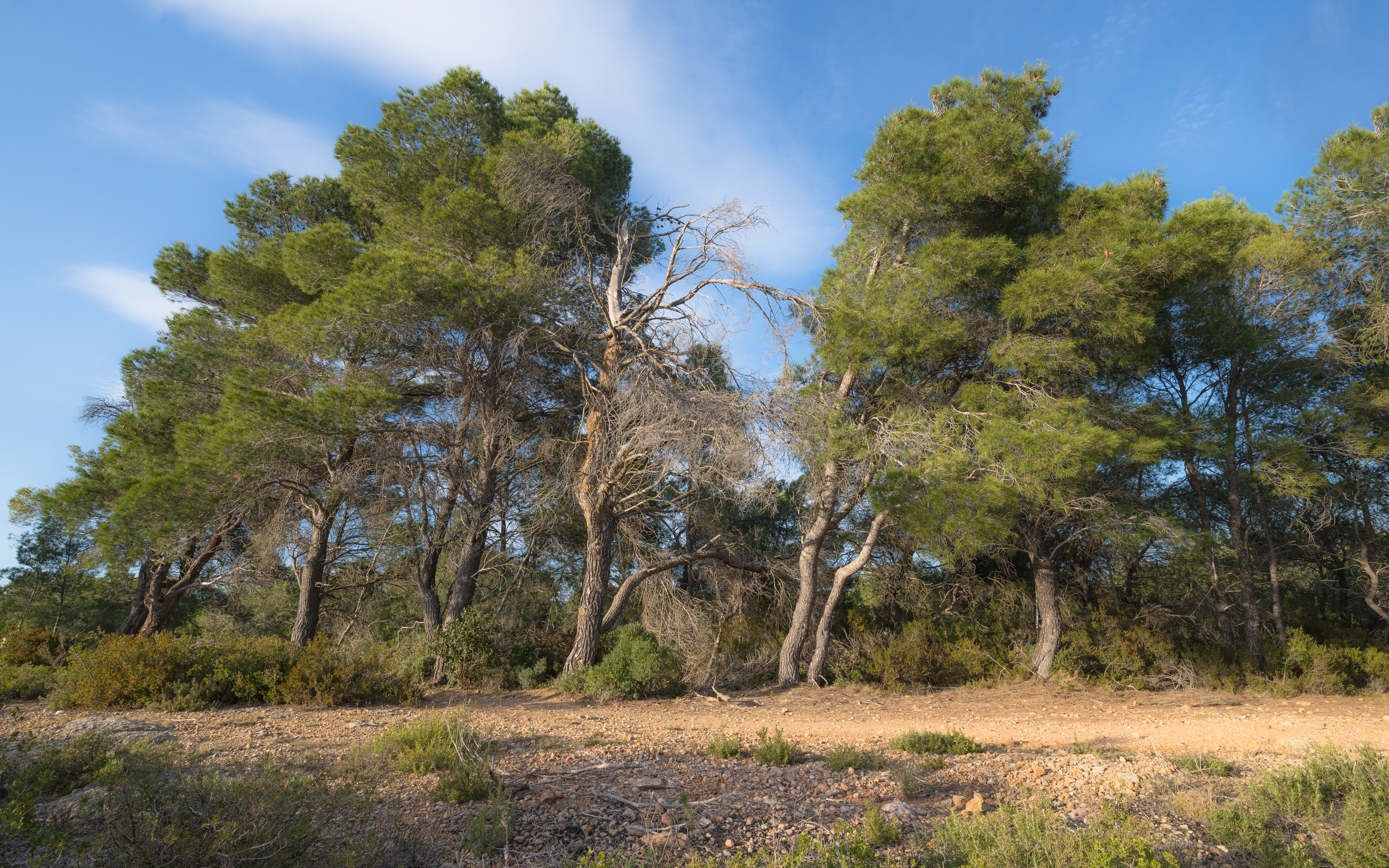 A grove of Aleppo Pines (Pinus halepensis) in the commune of Pinet, Hérault, France.